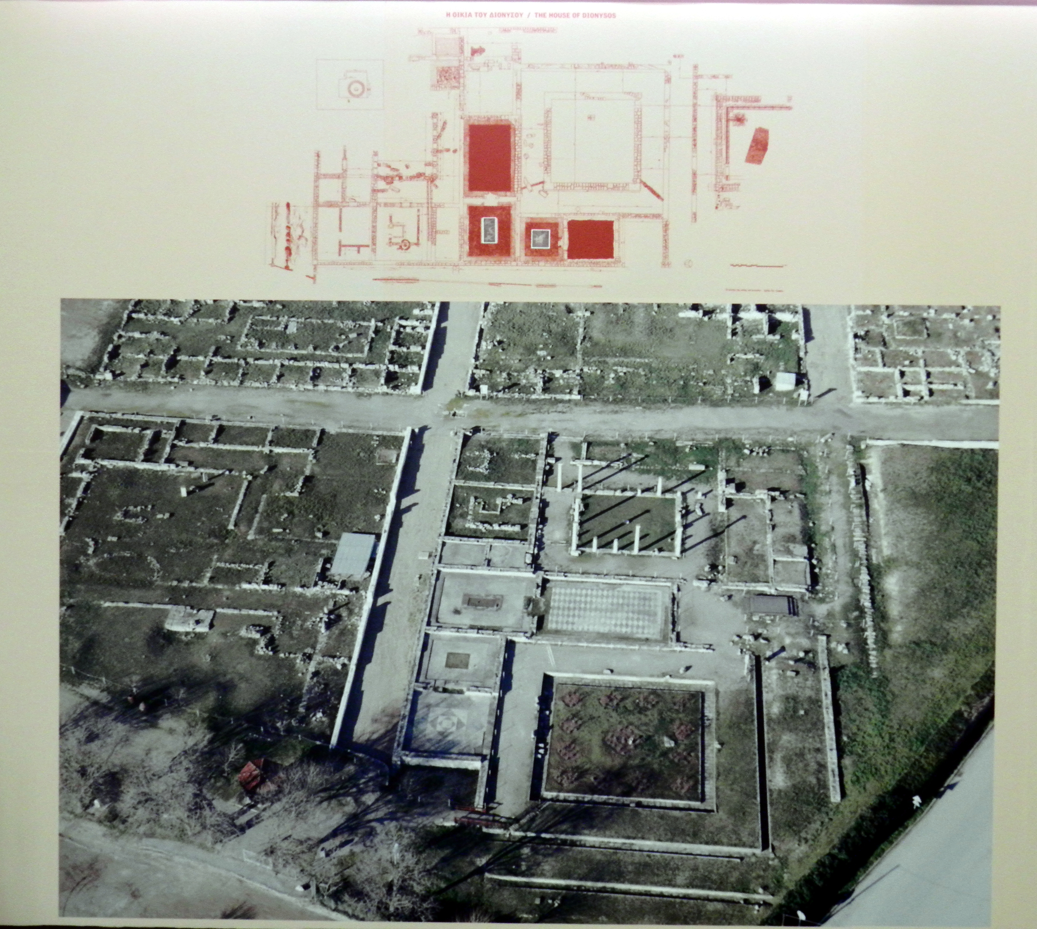 The house of Dionysos has an area of 3,160 square metres and occupies the entire width and the bigger part of the length of a building block. It consists of two parts, articulated around two central peristyle courtyards. The larger of these, 300 square metres in area, is situated in the south part of the house and has rooms for entertaining visitors arranged around three sides of it. A small courtyard in the north part with a restored ionic peristyle, is surrounded by the living room for th occupants of the house. The stone base of a staircase preserved in the north-east room attests to the existence of an upper storey on the north side of the small courtyard. Entrance is from a porch on the east side of the house, from which a wide door leads to the north part of it, and there is another entrance at the south. In the south part of the house there are two banquet rooms (andrones), which communicate with the courtyard by way of large antechambers. In the north-west part is the andron with the mosaic of the lion hunt. The scene occupies the center of the floor and is enclosed by a broad border of floral decoration. The big antechamber is paved with white and black pebbles forming lozenges. The threshold in front of the entrance to the andron is preserved with a mosaic depiction of a Centaur and Centauress. To the south of the andron with the lion hunt mosaic, is the andron with the mosaic of Dionysos, which fills the entire room. The god is depicting rinding on a panther and holding a thyrsos. The floor of the antechamber of this andron is covered with white and black pebbles arranged in concentric triangles. The threshold at the entrace to the andron is adorned with a mosaic of a griffin tearing a deer. The construction of the house of Dioysos is dated in 235-300 BC. All the mosaics of the house are exhibited in the museum.